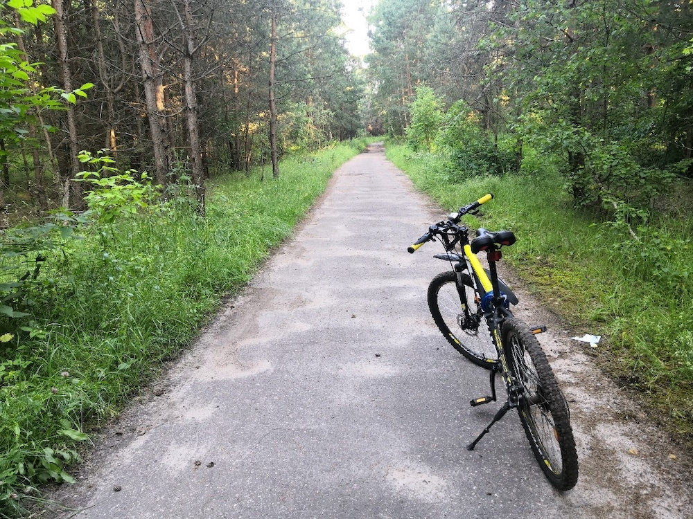 Posadsky forest in the village of Mirny